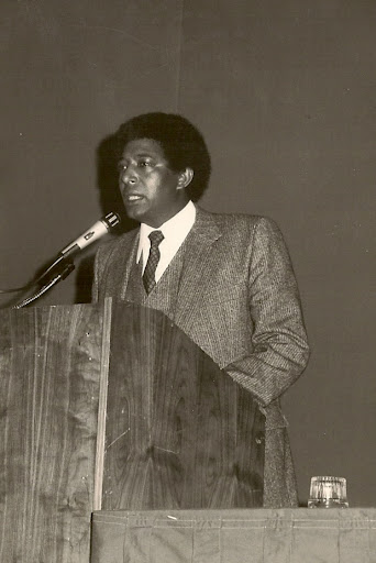 Baruch Tegegne at the AAEJ National Conference ,October 31, 1983.